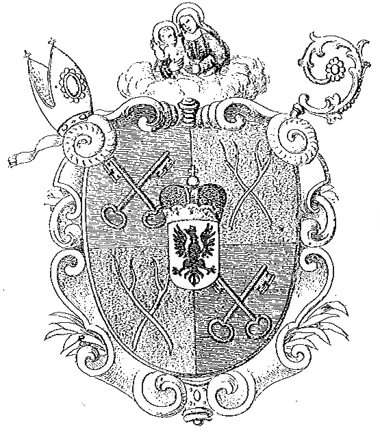 Coat of arms of Želiv monastery (Czech Republic)